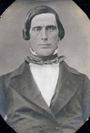 Elam Greeley. Image titled "Elam Greeley of Stillwater. Member of the 1852-1853 Territorial Council and Territorial legislator in 1857."